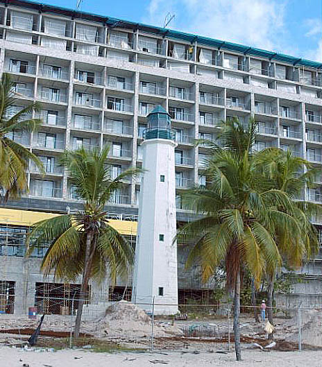 NEEDHAM’S POINT LIGHTHOUSE JUST SOUTH OF BRIDGETOWN - NOW LOCATED ON THE GROUNDS OF THE NEW HILTON HOTEL.